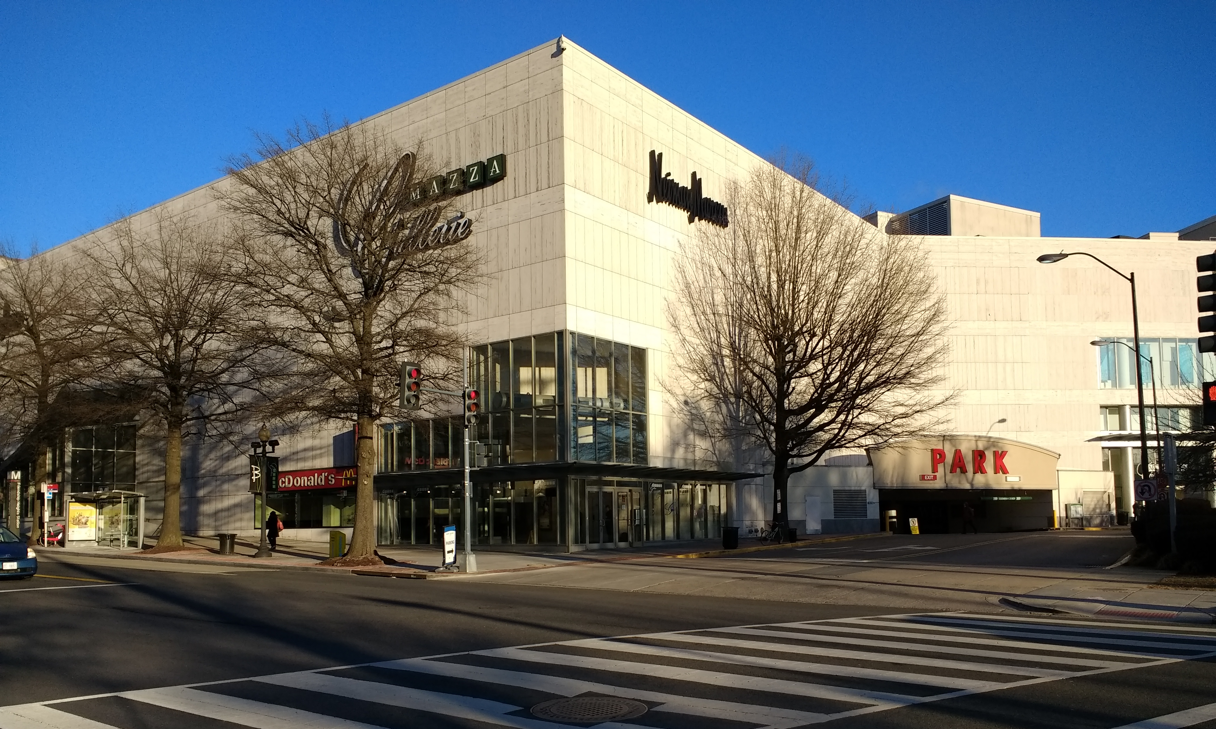 Exterior of Mazza Gallerie, a shopping center in Washington, DC.